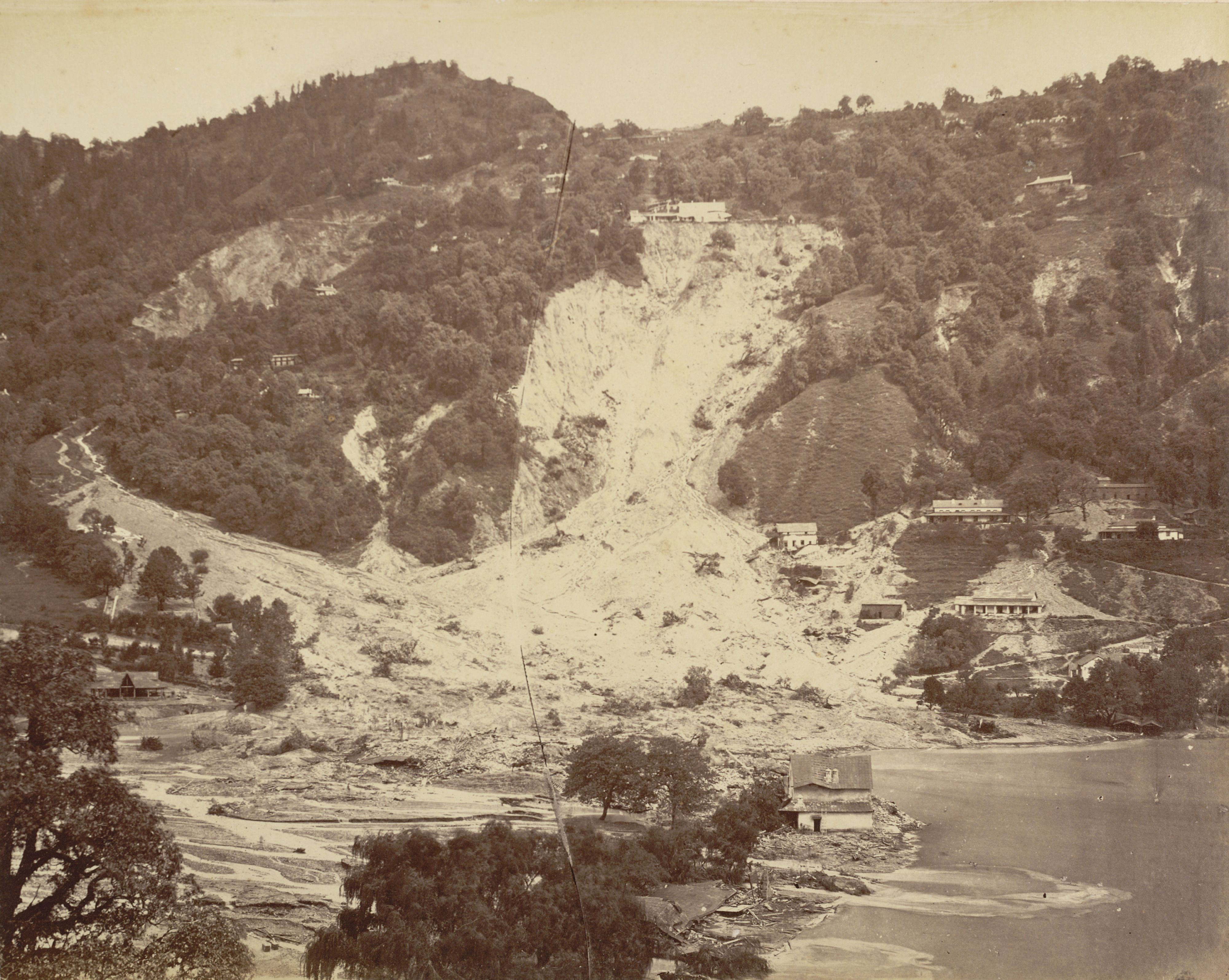 "Naini Tal, Landslip in 1880" Macnabb Collection (Col James Henry Erskine Reid): Album of views of 'Naini Tal' From "Oriental and India Office Collection," British Library. This photograph was taken in 1880 and is more than 125 years old. The photographer died over 100 years ago.